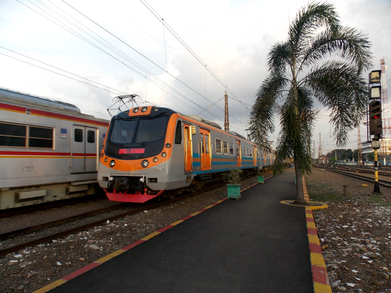 An INKA-Bombardier KfW i9000 EMU is entering Manggarai Station.